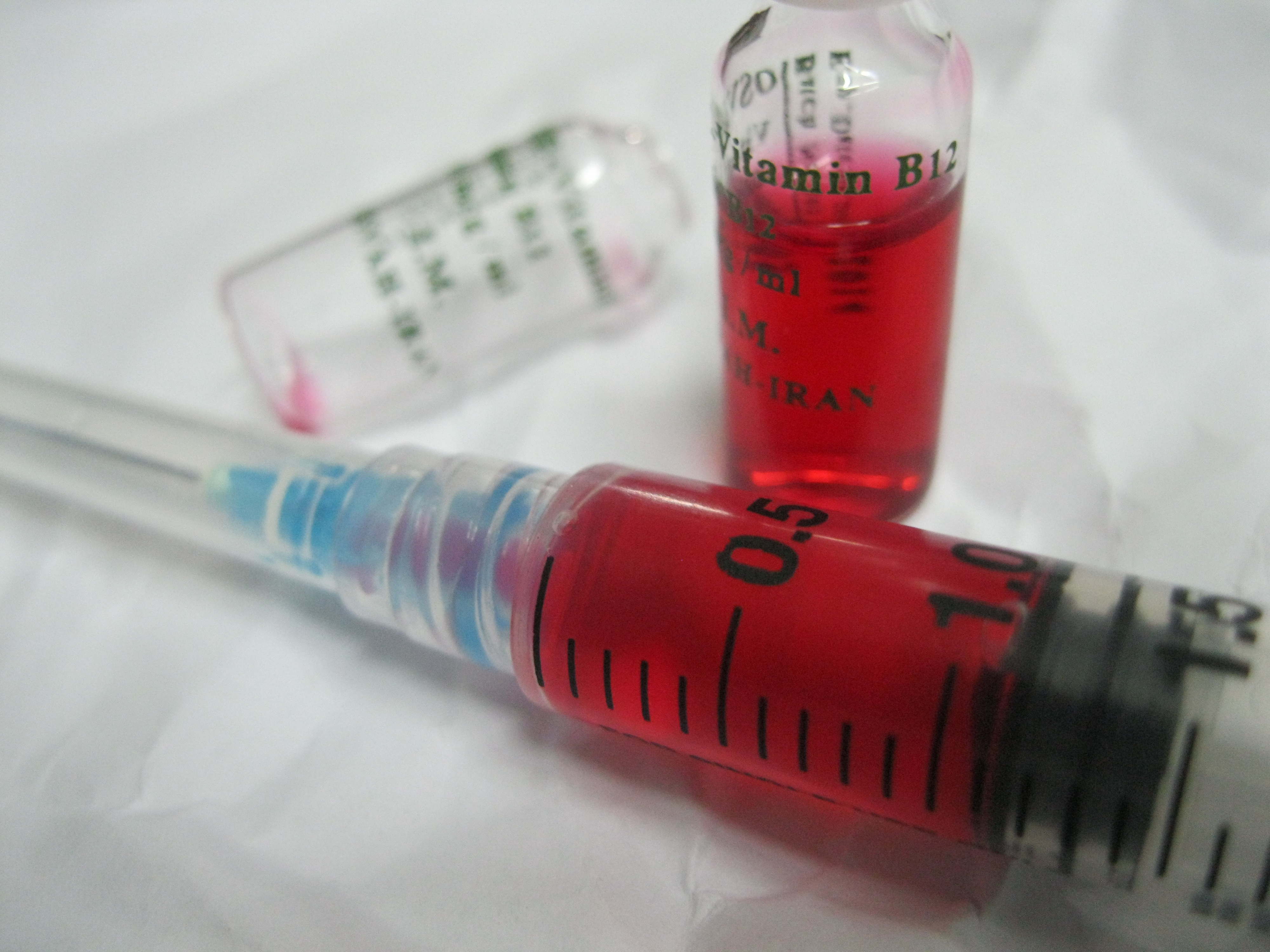 Vitamin B12 is a nutrient that helps keep the body's nerve and blood cells healthy and helps make DNA, the genetic material in all cells. Vitamin B12 also helps prevent a type of anemia called megaloblastic anemia that makes people tired and weak.